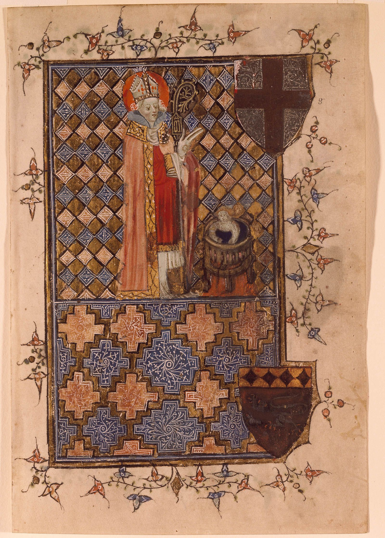 St. Nicholas reviving a Youth. Manuscript Illuminations.